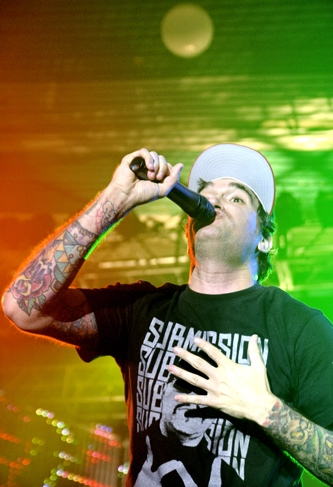 New Found Glory frontman Jordan Pundik performs live in São Paulo, Brazil.